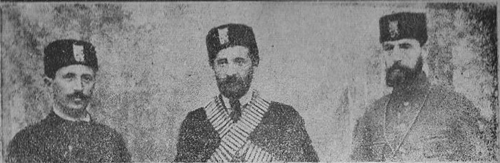 Portrait of Vladimir Karamfilov, Dosyo Andreev and Todor Organdzhiev from Macedonian-Adrianopolitan Volunteer Corps